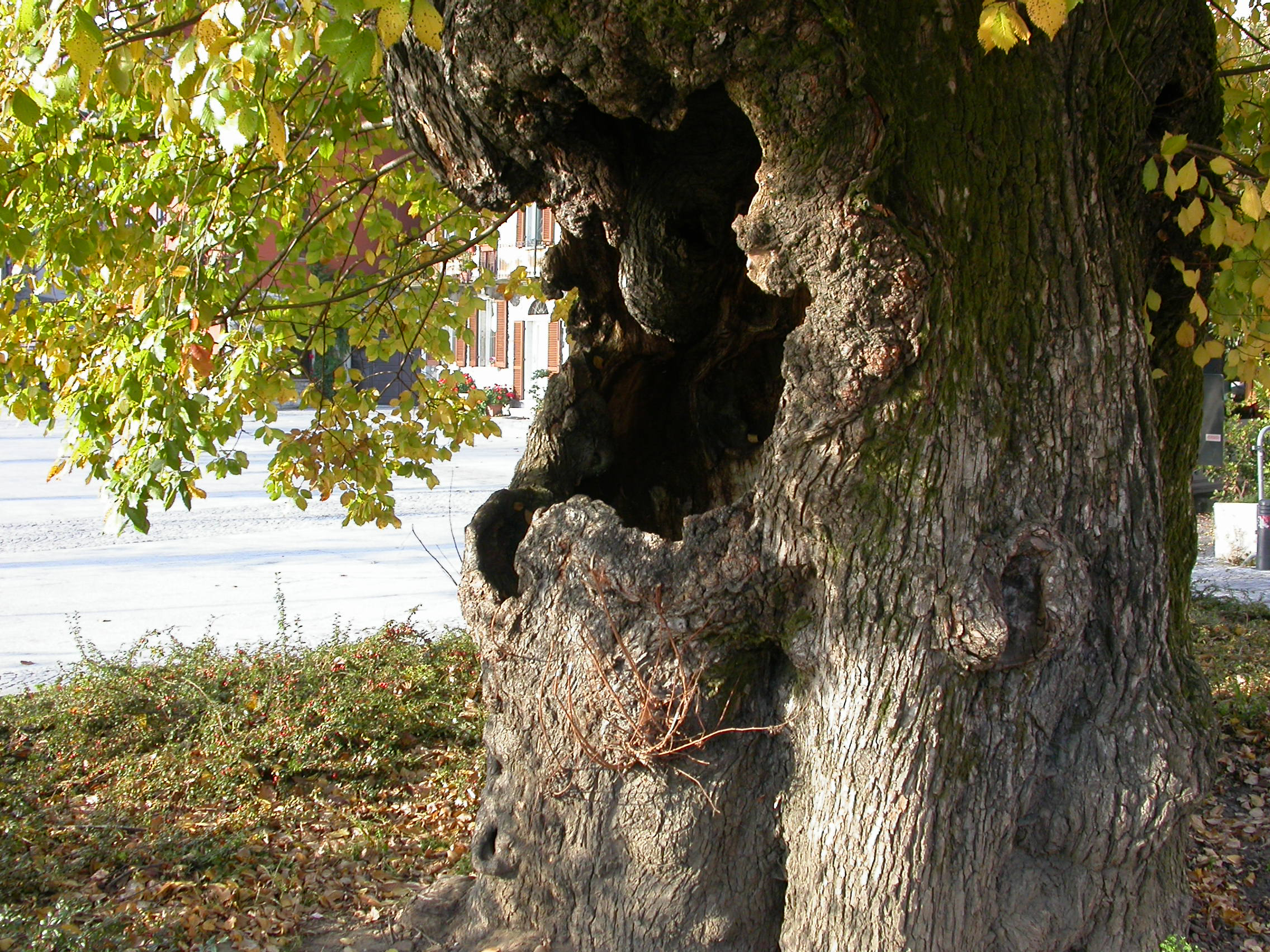 Centuries-old Elm located on the Mergozzo's square